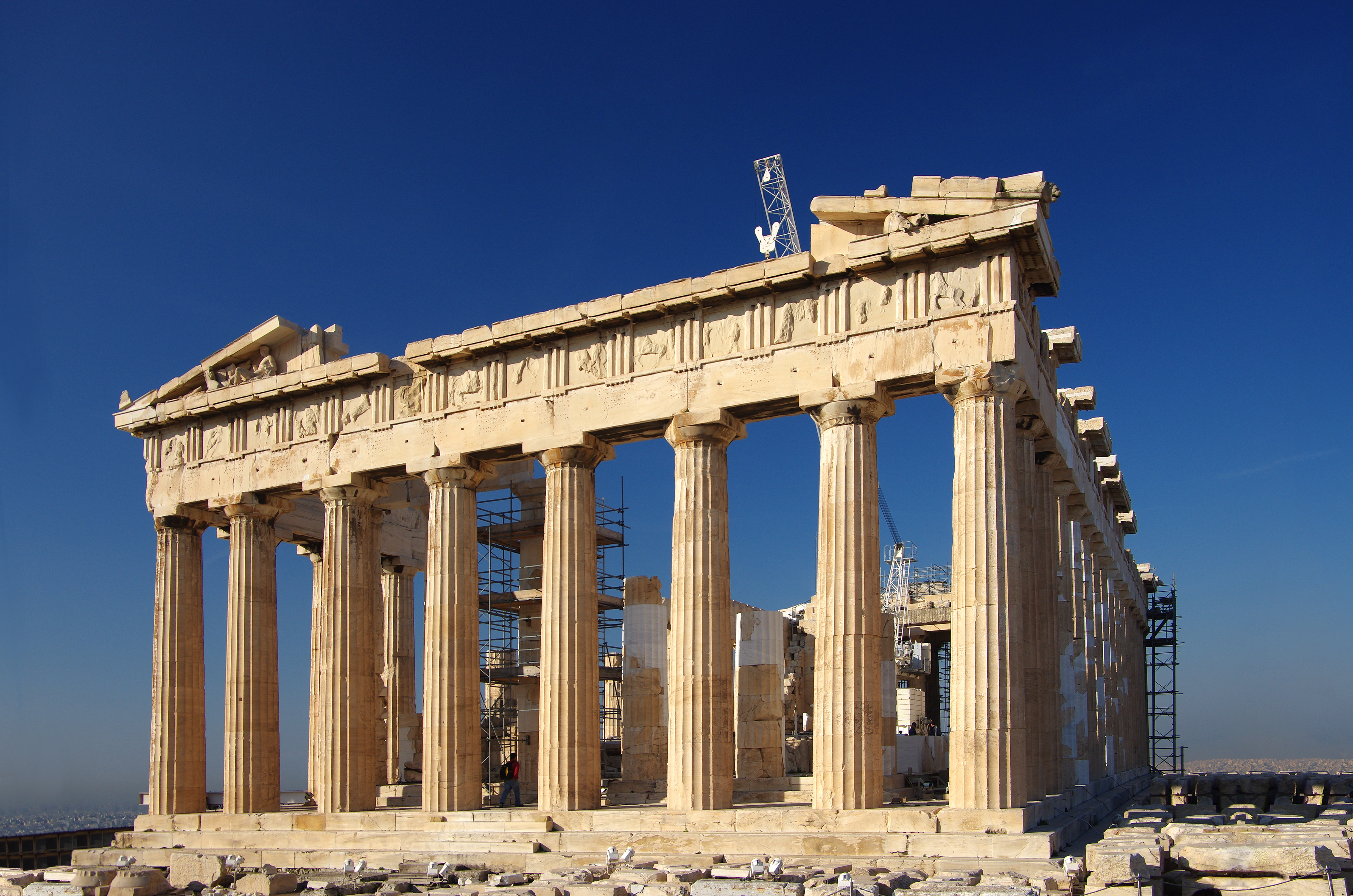 02 2020 Grecia photo Paolo Villa FO190140 tris (Acropolis of Athens): North-East view of the Parthenon, blue sky, Classic greek art, doric order, with gimp reconstruction of the lateral lapidaries, perspective correction and lights PAOLO VILLA VERONA ITALY (first edition ) This file has been extracted from another file: 02 2020 Grecia photo Paolo Villa FO190140 bis (Acropoli di Atene) Tempio del Partenone, visto da Nord Est, Arte Greca Classica, ordine dorico, cielo blu, con gimp correzione prospettica e luci.jpg This file has been extracted from another file: 02 2020 Grecia photo Paolo Villa FO190140 (Acropoli di Atene) Tempio del Partenone, visto da Nord Est, Arte Greca Classica, ordine dorico, cielo blu, senza gimp.jpg